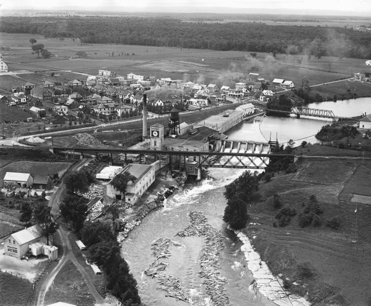 PhotographAerial view, Howard Smith Paper Mills, Crabtree Division, near Joliette, QC, 1925-26, Wm. Notman & Son, Silver salts on glass - Gelatin dry plate process - 20 x 25 cm